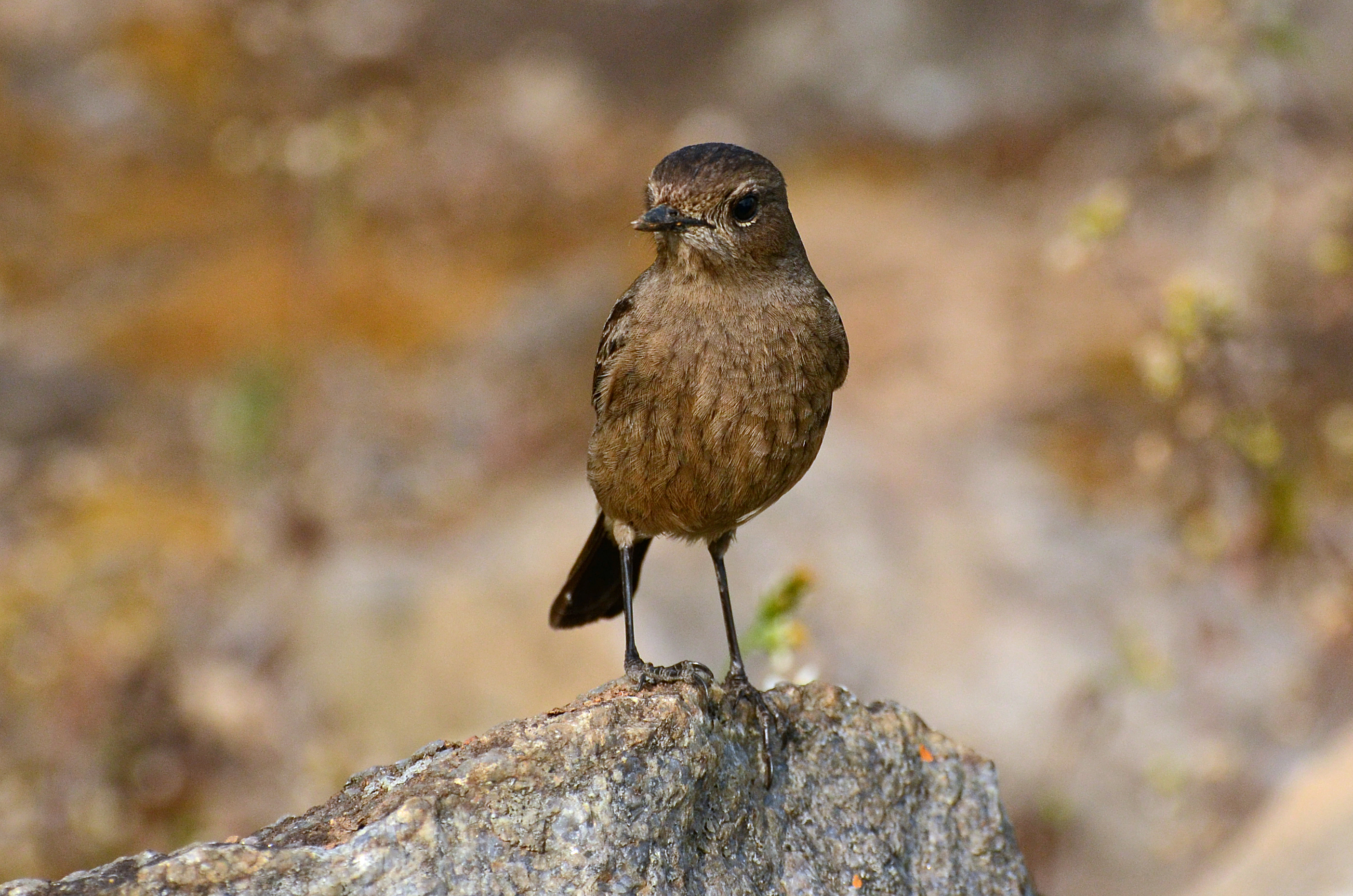 Pied bush chat (Saxicola caprata) female from The Nilgiris